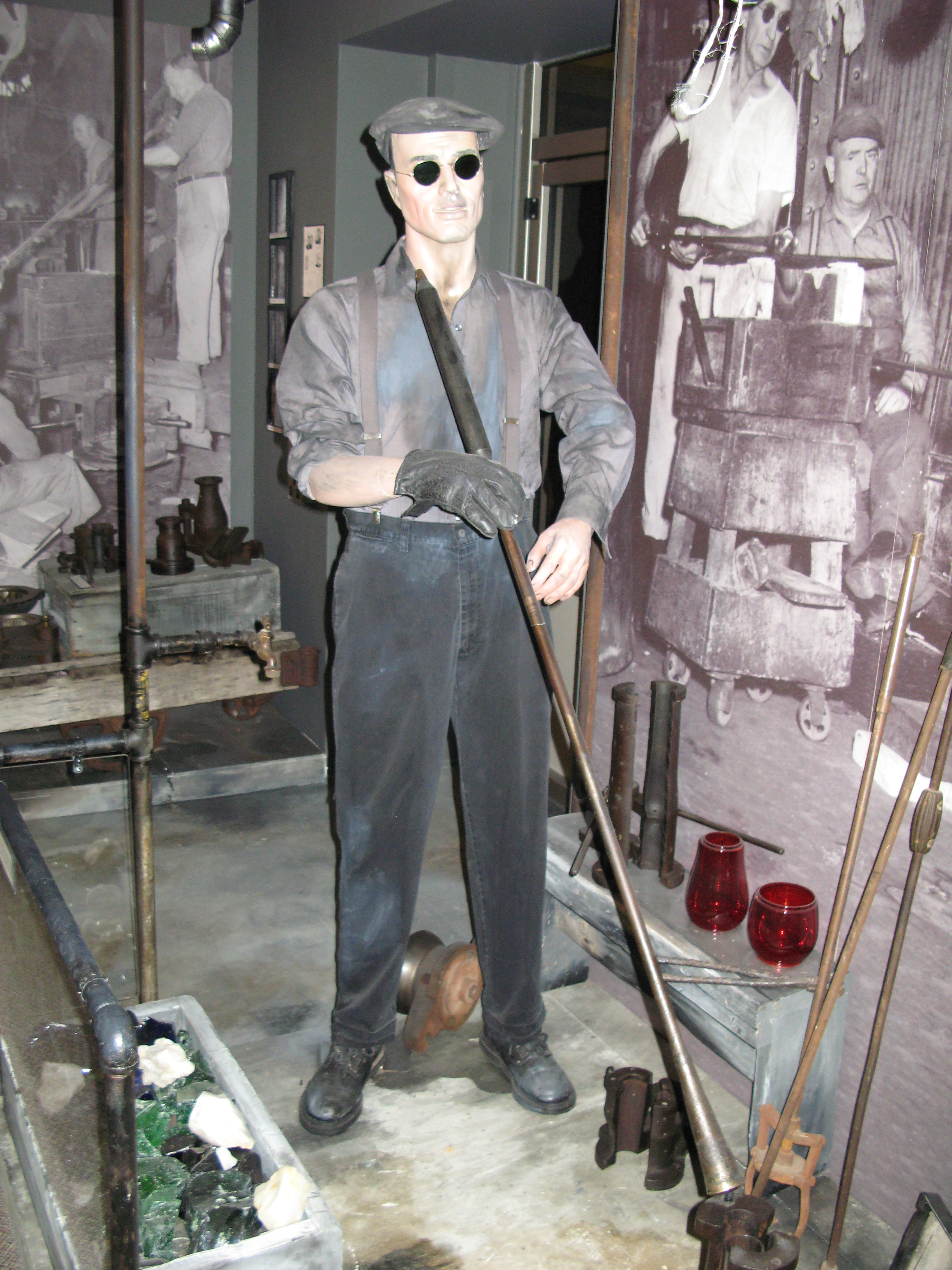 Glass Gallery Exhibit